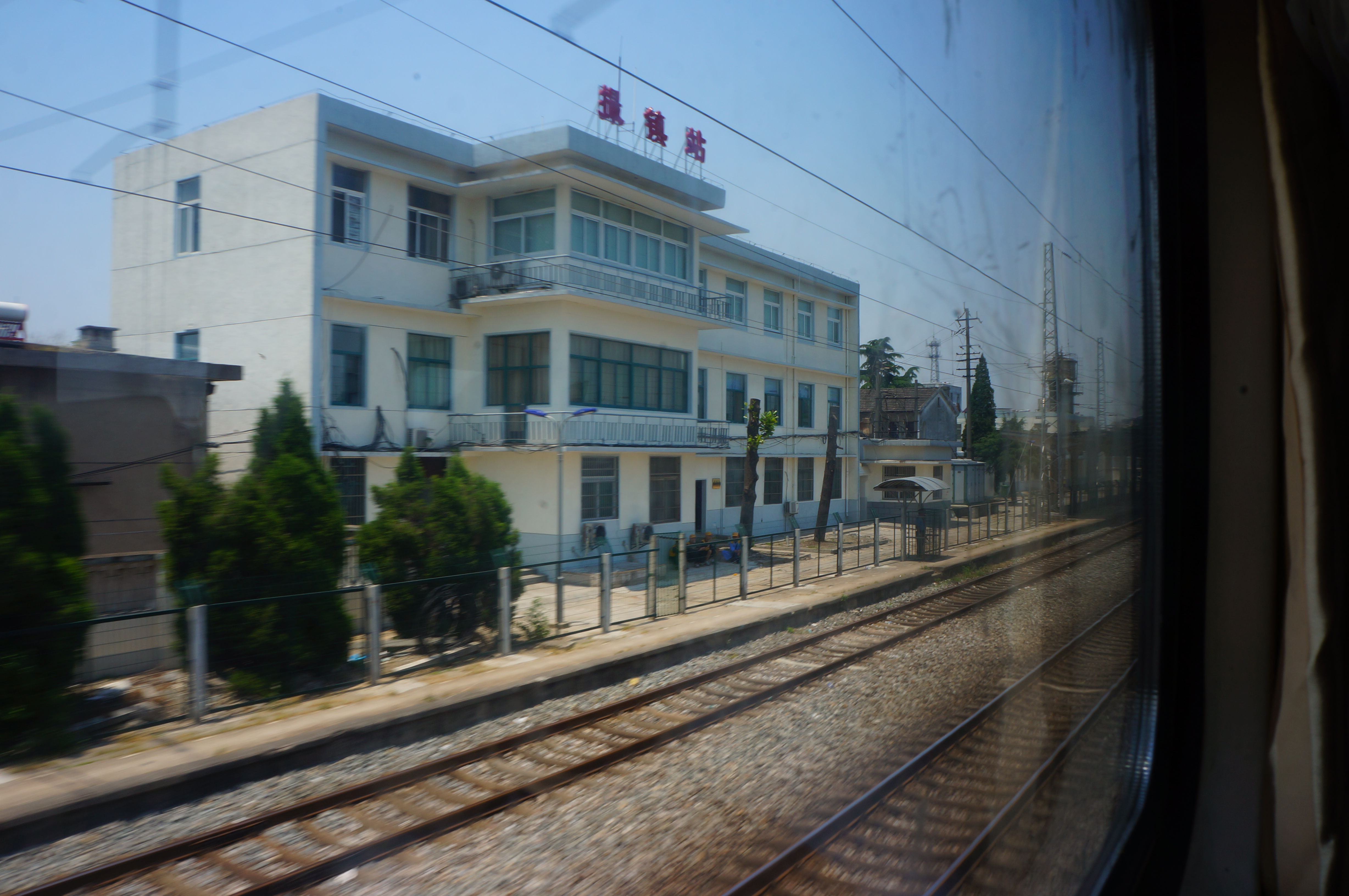 201705 Conductor of Cuozhen Station